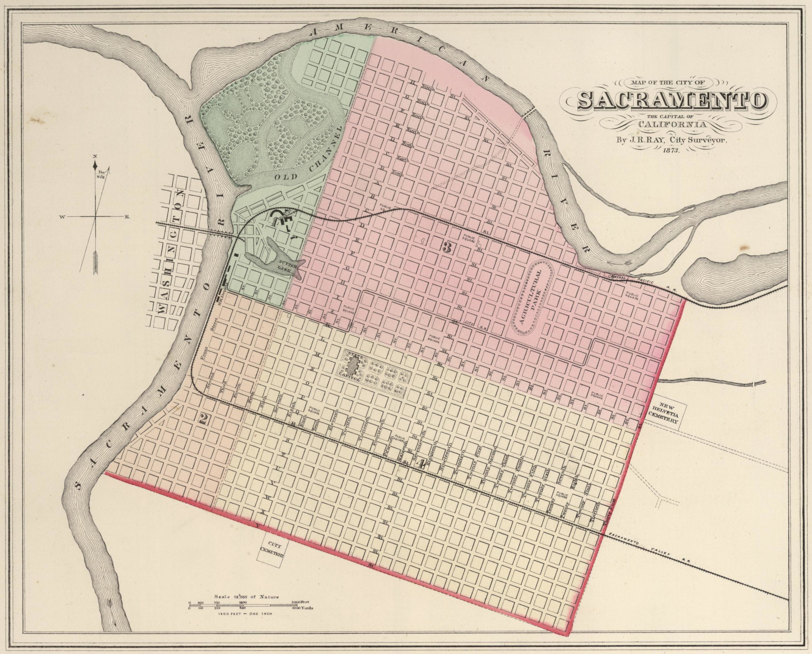 Map of the City of Sacramento, the Capital of California. By J.R. Ray, City Surveyor, 1873.